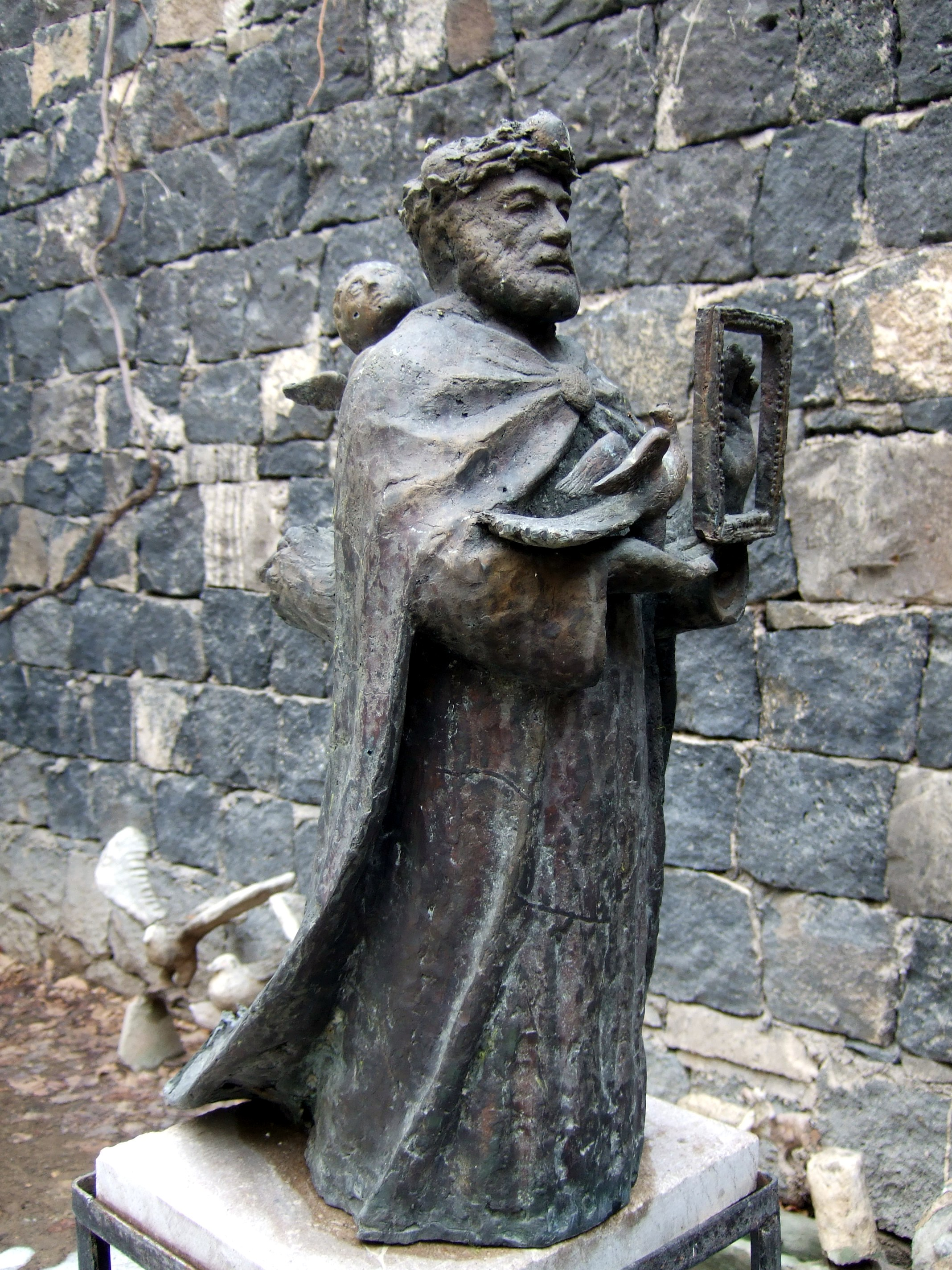 Statue of Sergei Parajanov at Sergei Parajanov Museum